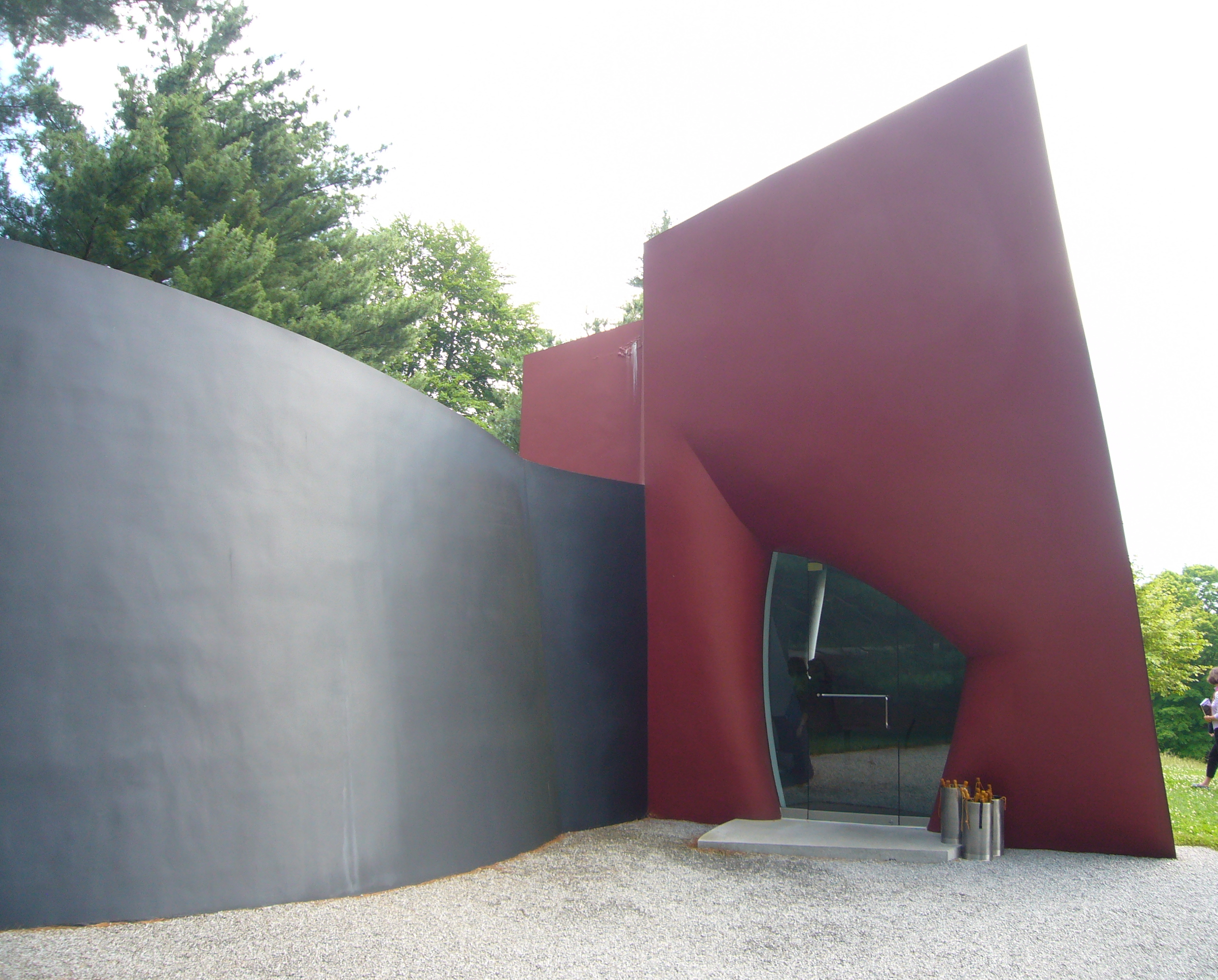 "Da Monsta" (gate house) at Philip Johnson's Glass House, New Canaan, CT USA.